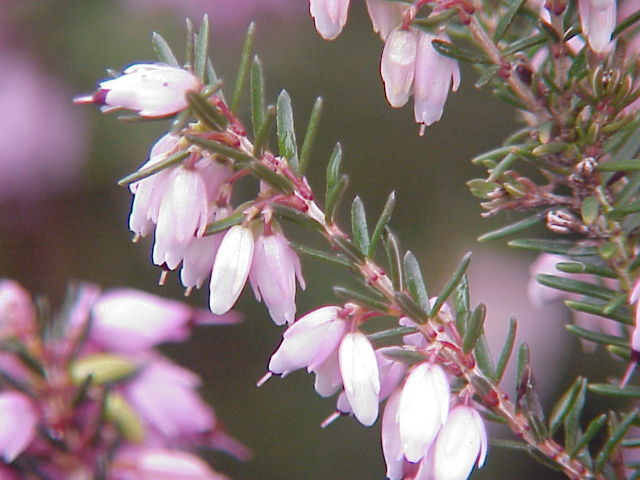 Species: Erica herbacea Family: Ericaceae Image No. 1